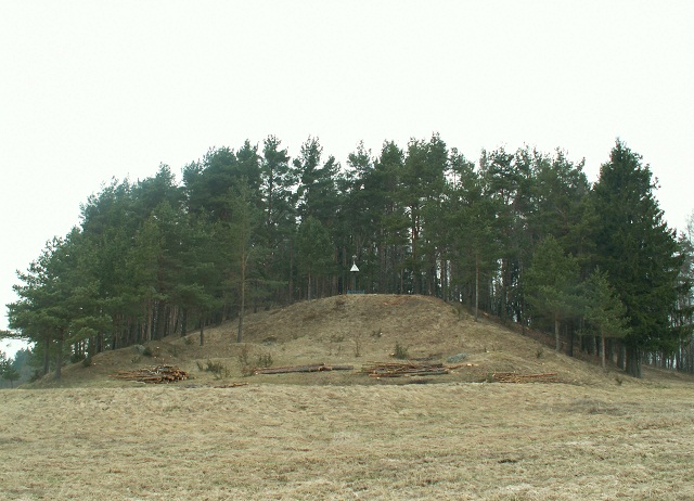 Alkas, Kretinga district, Lithuania